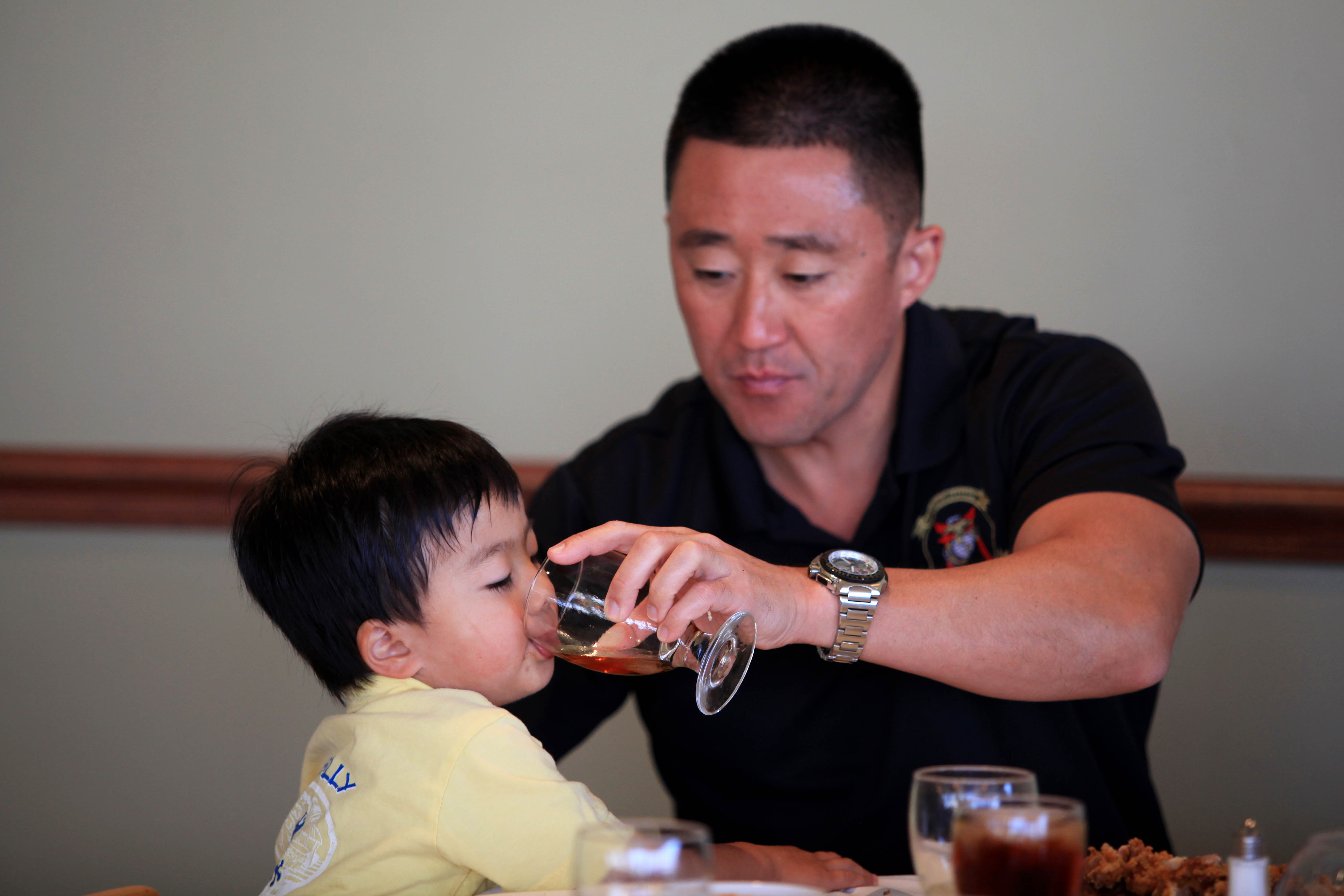 Lt. Col. Joon Um, Executive officer for Headquarters and Support Battalion, Marine Corps Base Camp Pendleton, assists 2-year-old son, Derek Um, with his juice during the Father's Day luncheon held at the Pacific Views Event Center, Marine Corps Base Camp Pendleton, June 17.